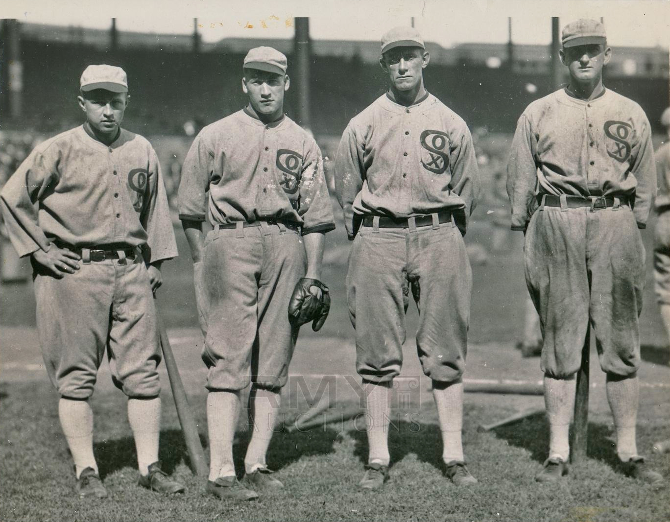 Four outfielders of the 1919 Chicago White Sox pose together on the eve of the World Series. This quartet featured Black Sox Shoeless Joe Jackson (far right) and Happy Felsh (second from left) as well as clean players Nemo Leibold and Shano Collins.